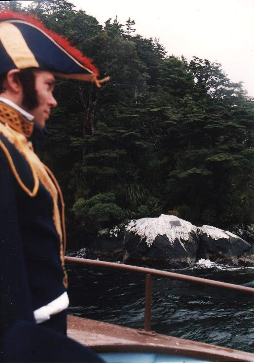 The Official Spanish Landing Plaque on Marcaciones point. Visible is the bronze plaque placed on the point by Bart Porta and John Hall-Jones in 1984 inscribed: Marcaciones Point: Don Felipe Bauza of the Spanish expedition commanded by Captain Malaspina was the first European to explore Doubtful Sound. He landed on this point on 25 February 1793. Aaron Nicholson as Alessandro Malaspina